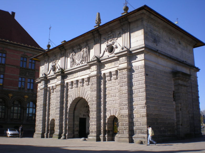 High Gate in Gdańsk, Poland.